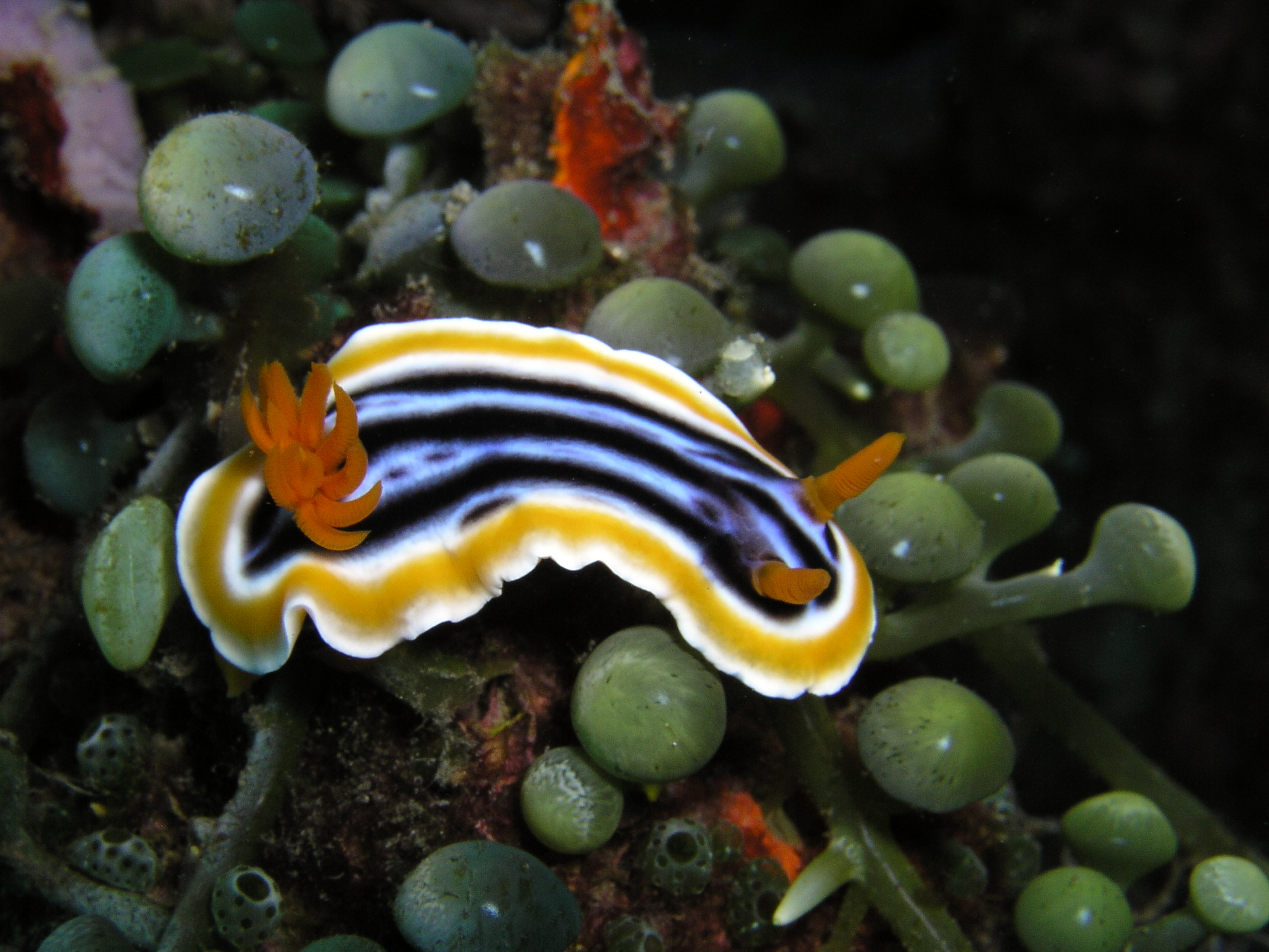 Chromodoris quadricolor on Caulerpa racemosa algae from East Timor